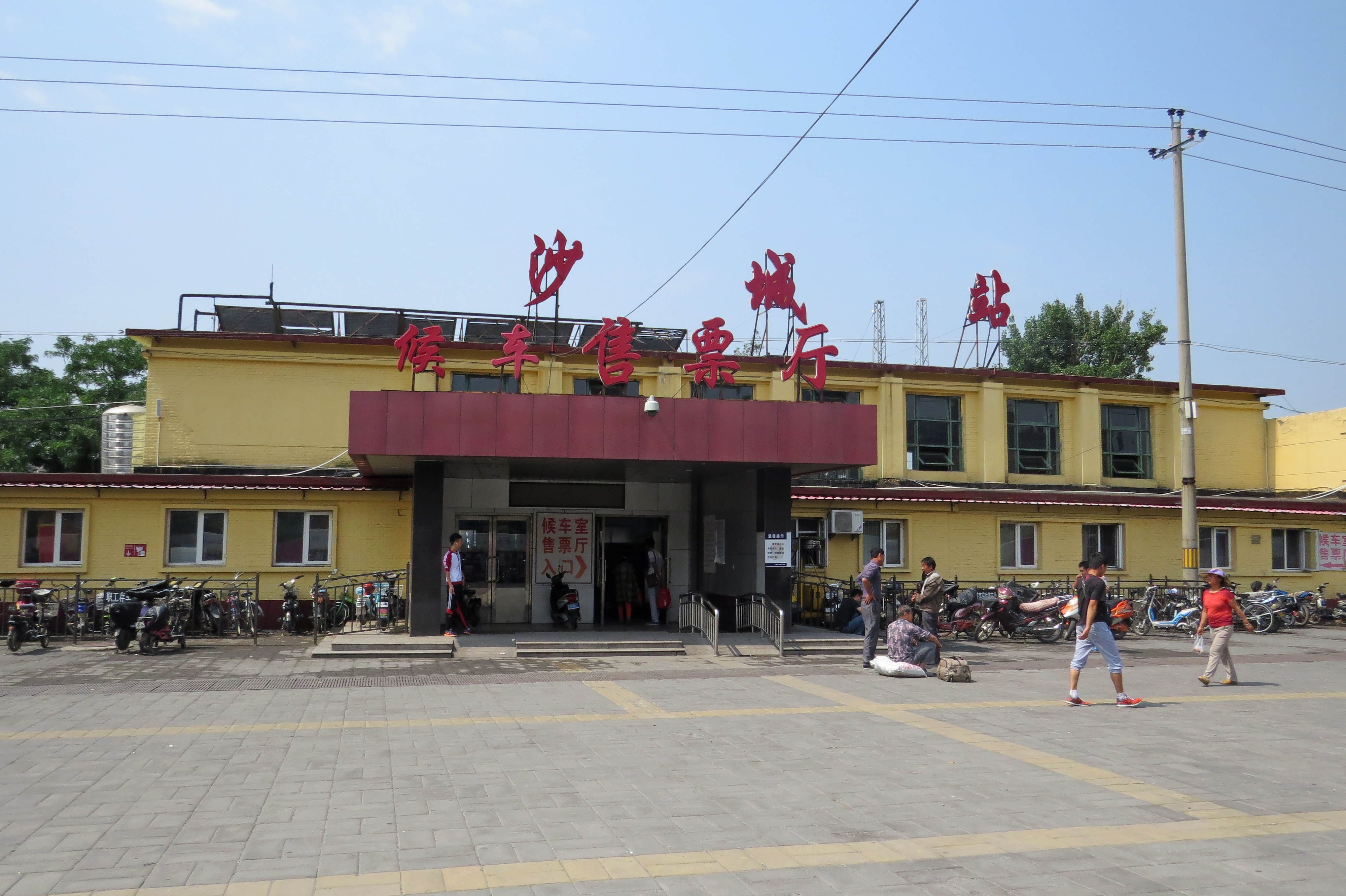 The terminal of S287, and the intersection point on Beijing-Baotou Railway.